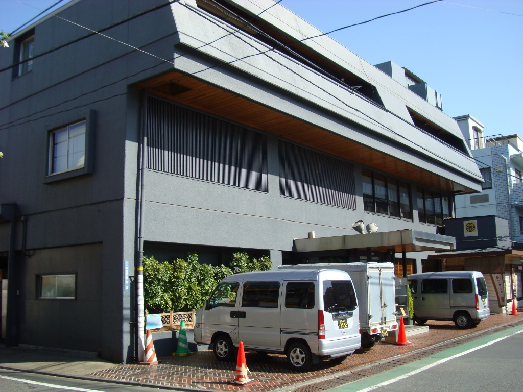 The Maisen restaurant, Harajuku, Tokyo